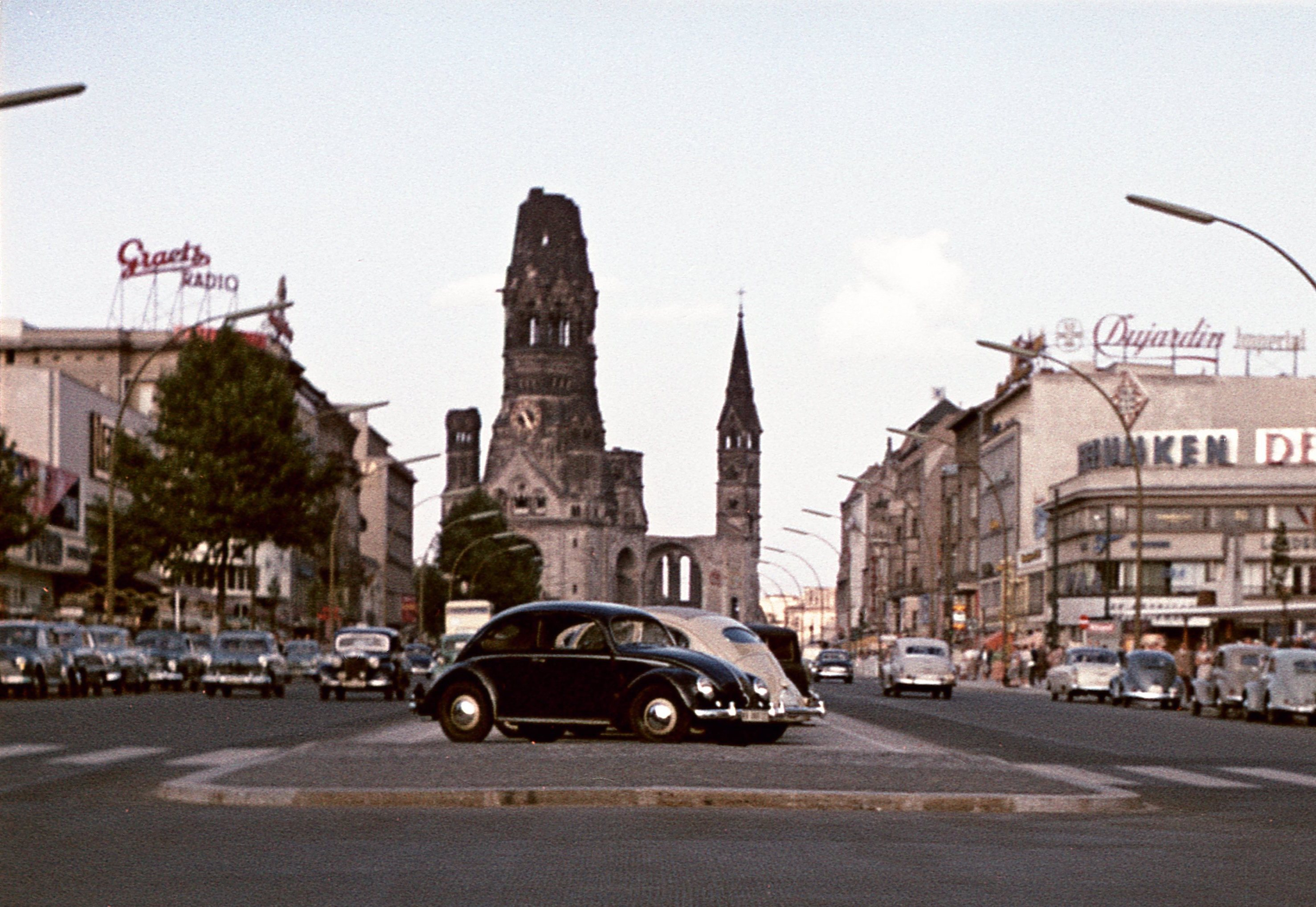 Kaiser-Wilhelm-Gedächtniskirche in the 1950s